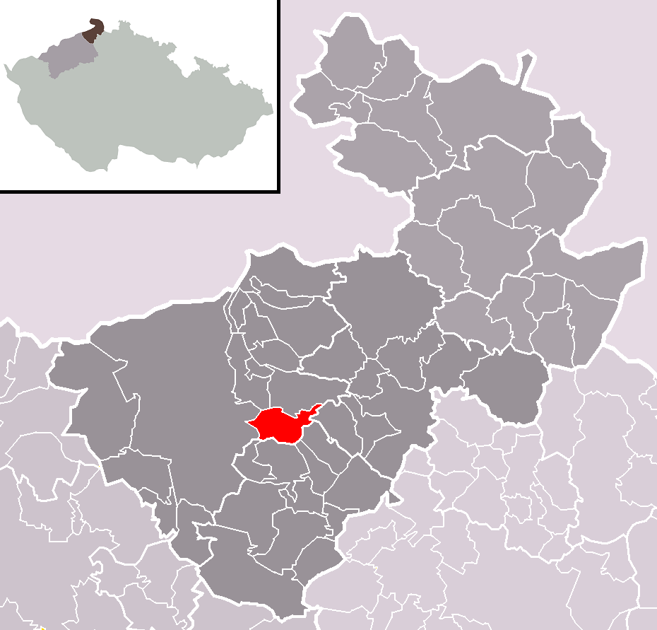 Location of Dobrná municipality within Děčín District and administrative area of Děčín as a Municipality with Extended Competence.